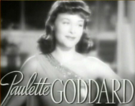 Cropped screenshot of Paulette Goddard from the trailer for the film The Women.